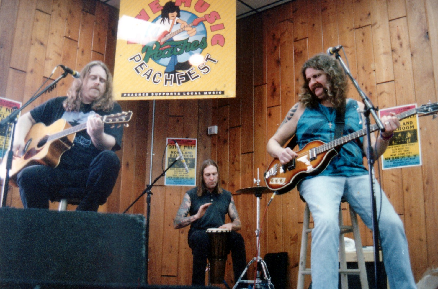 This was an afternoon free show from Govt. Mule. Matt Abts on right.